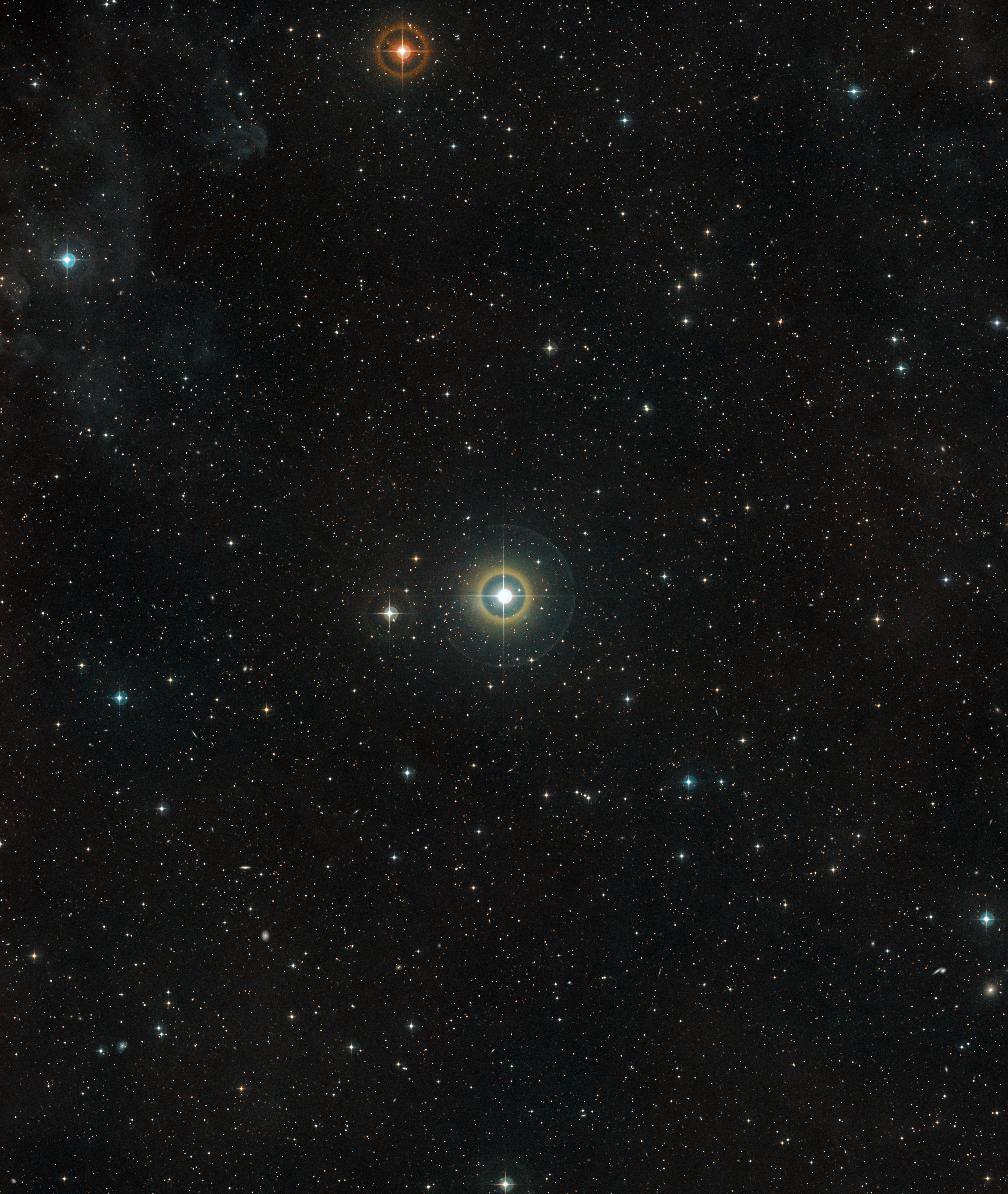 This image shows the sky around the star 51 Pegasi in the northern constellation of Pegasus (The Winged Horse). In 1995 the first exoplanet to be discovered was detected orbiting this star. Twenty years later this object was also the first exoplanet to be be directly detected spectroscopically in visible light. This image was created from photographic material forming part of the Digitized Sky Survey 2.